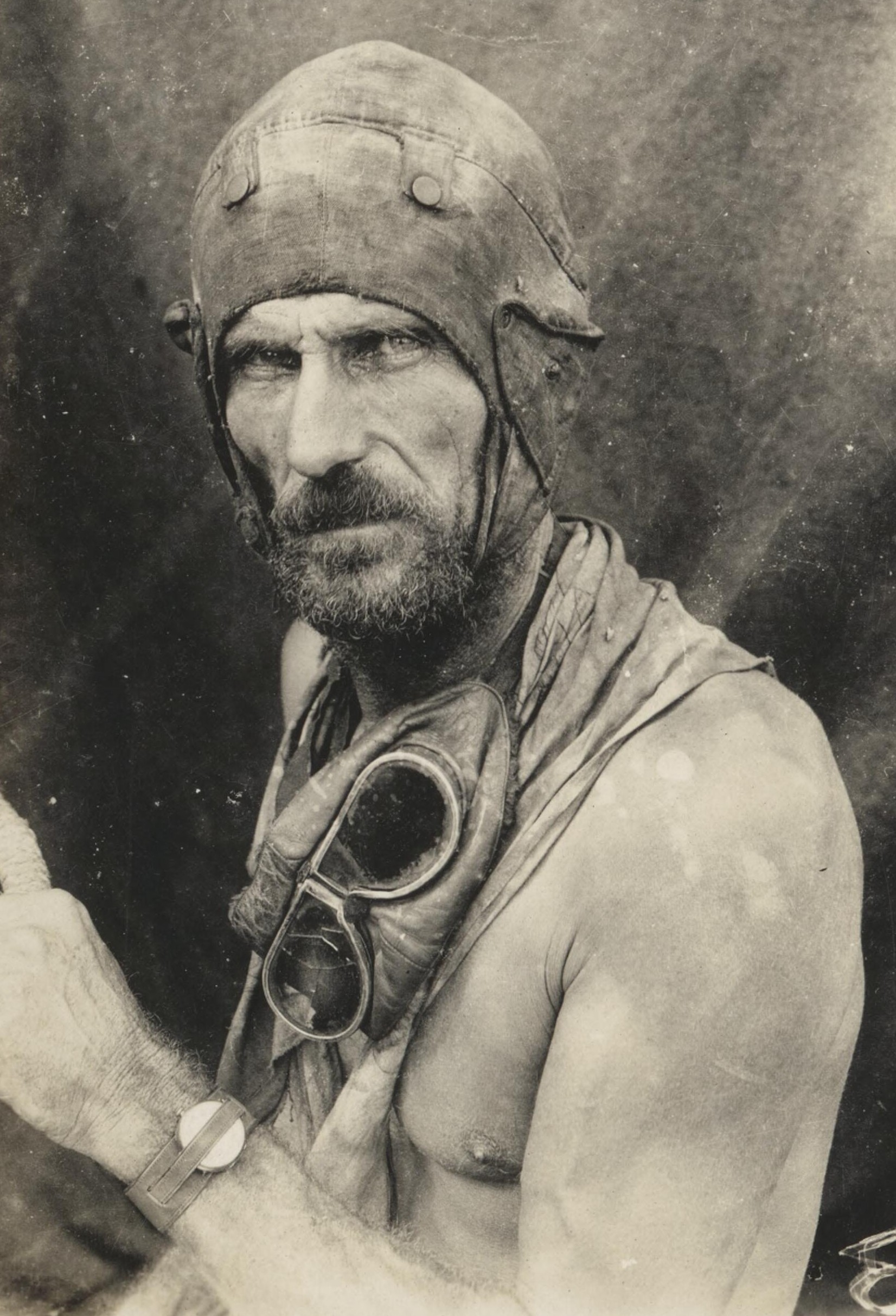 Portrait of Francis Birtles in Arnhem Land